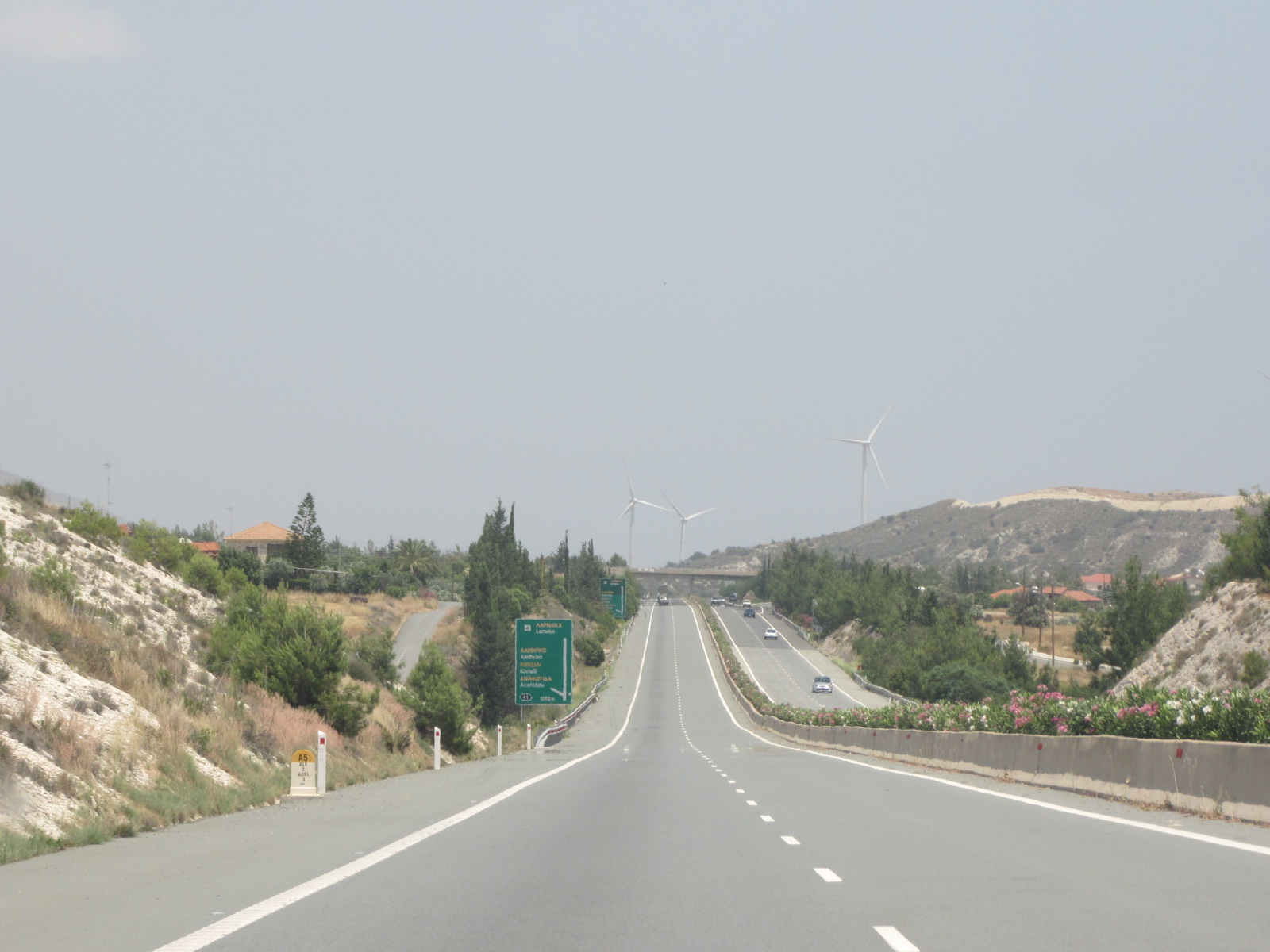 Cyprus A5 motorway in Alethriko (Αλεθρικό)